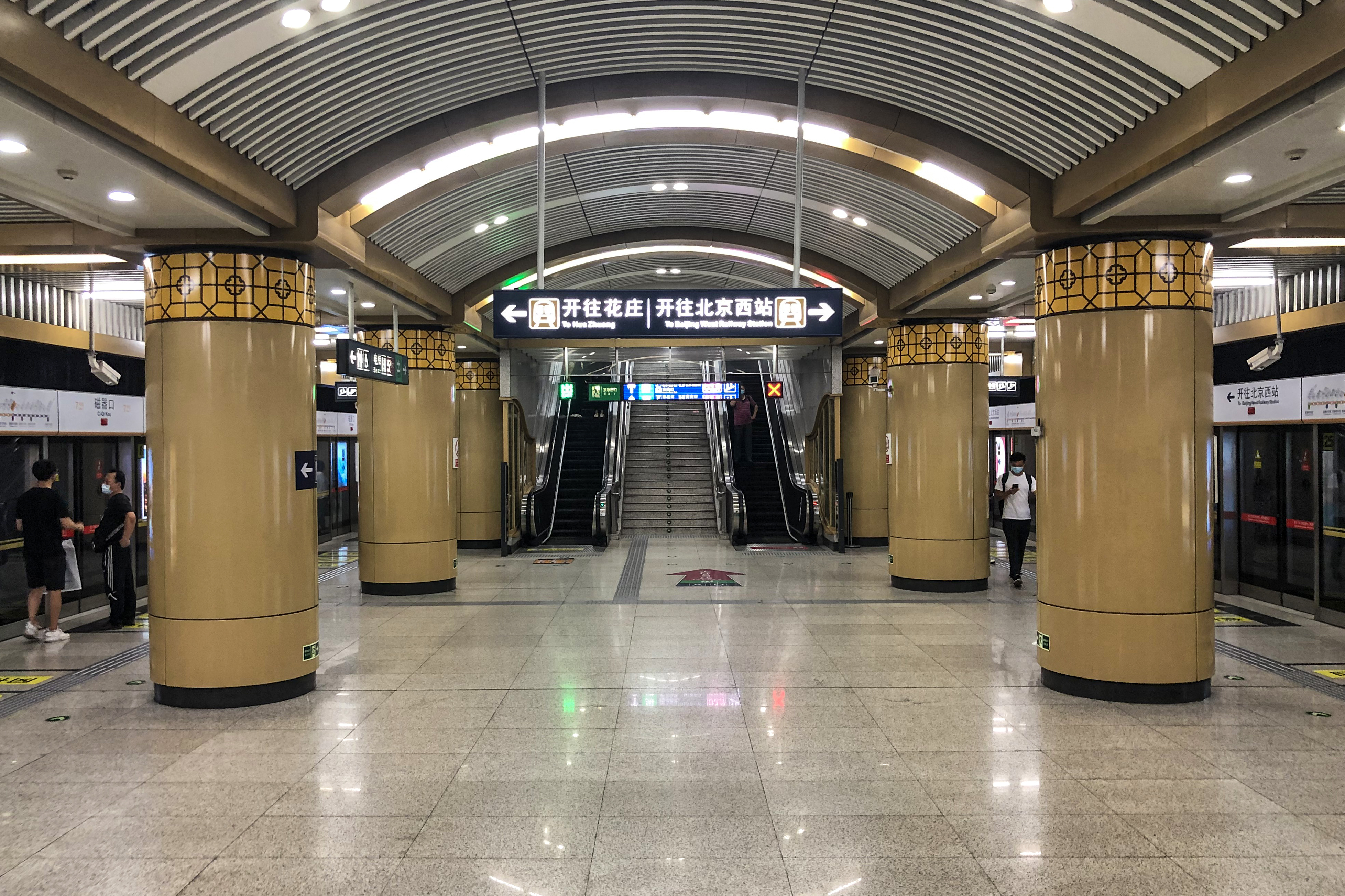 Coordinating the line colour?